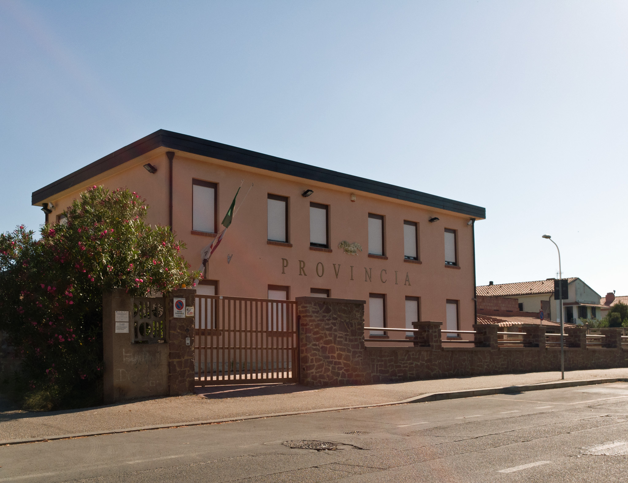 The Province of South Sardinia building of via Mazzini in Carbonia, Sardinia, Italy, previously seat of the Province of Carbonia-Iglesias